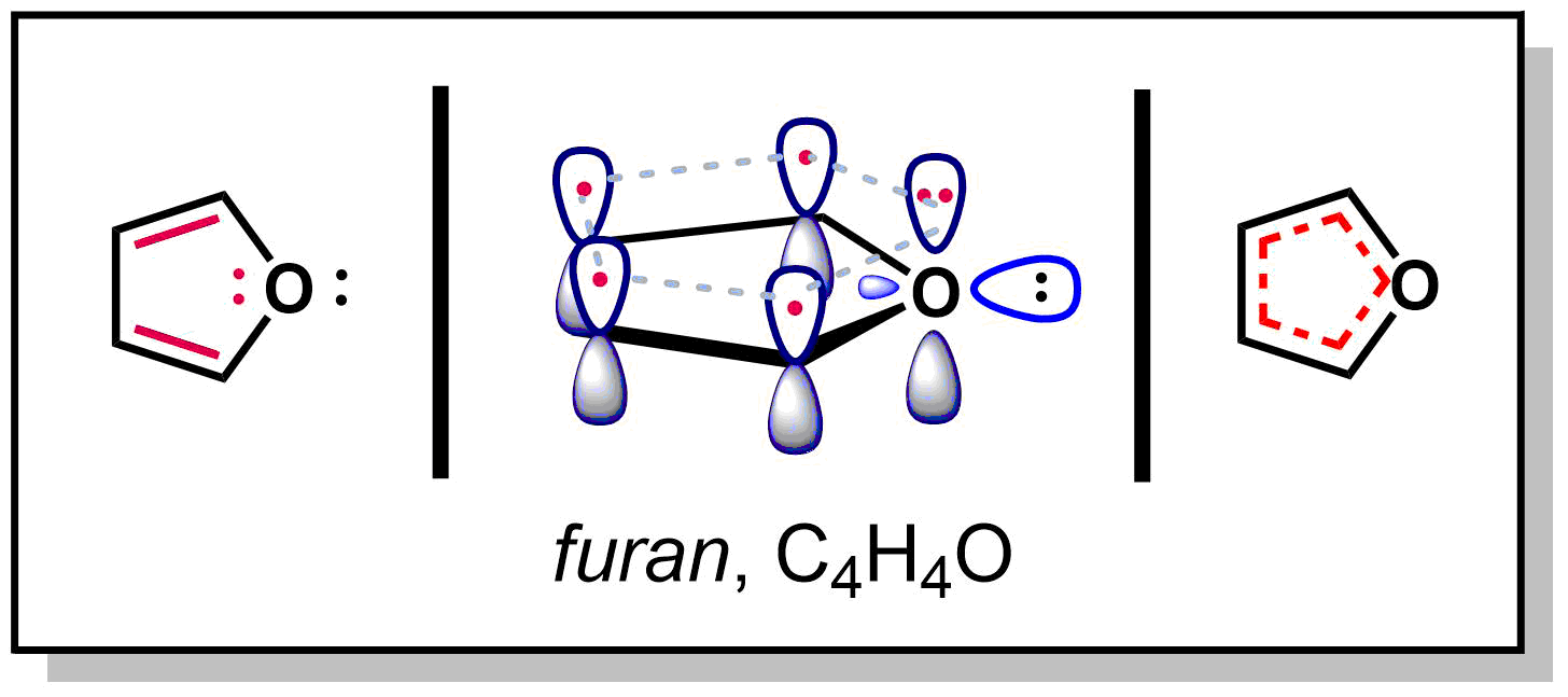 furan representations, pi system